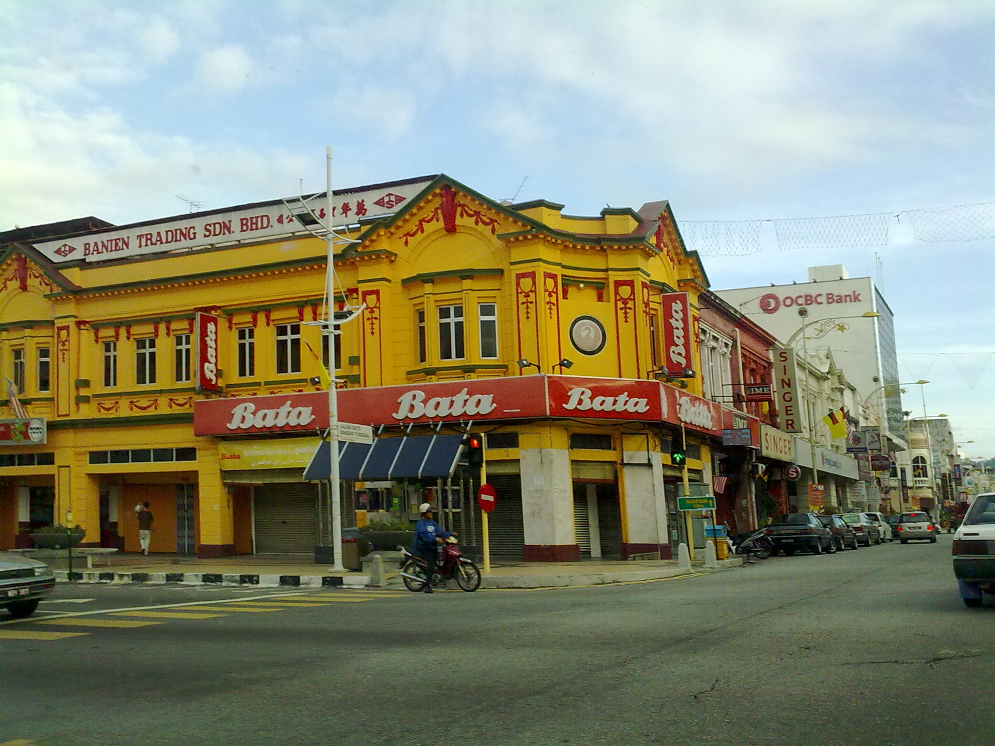 Bandar Seremban